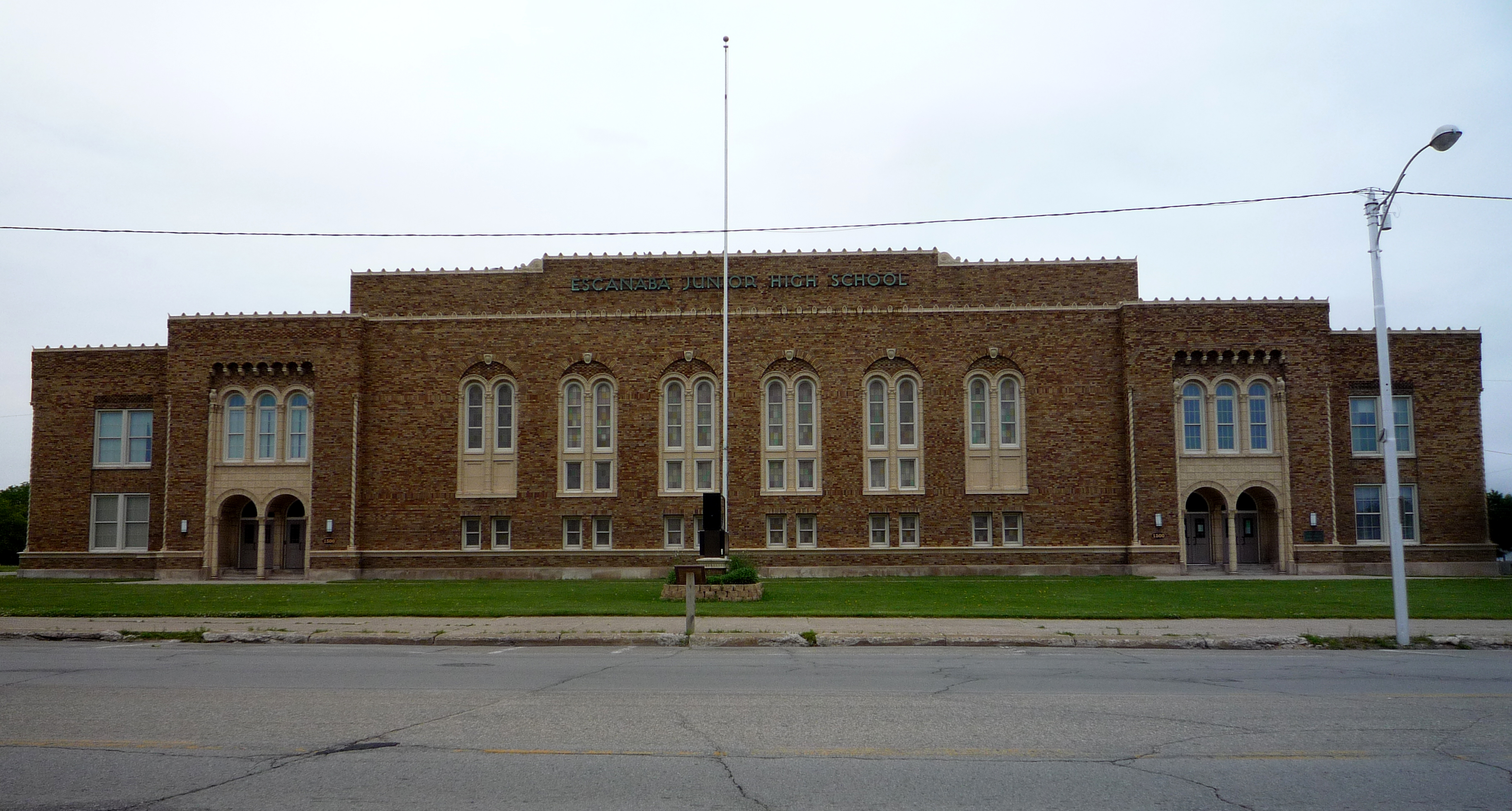 Escanaba Middle School, formerly Escanaba Junior High School, Escanaba, Michigan, USA.